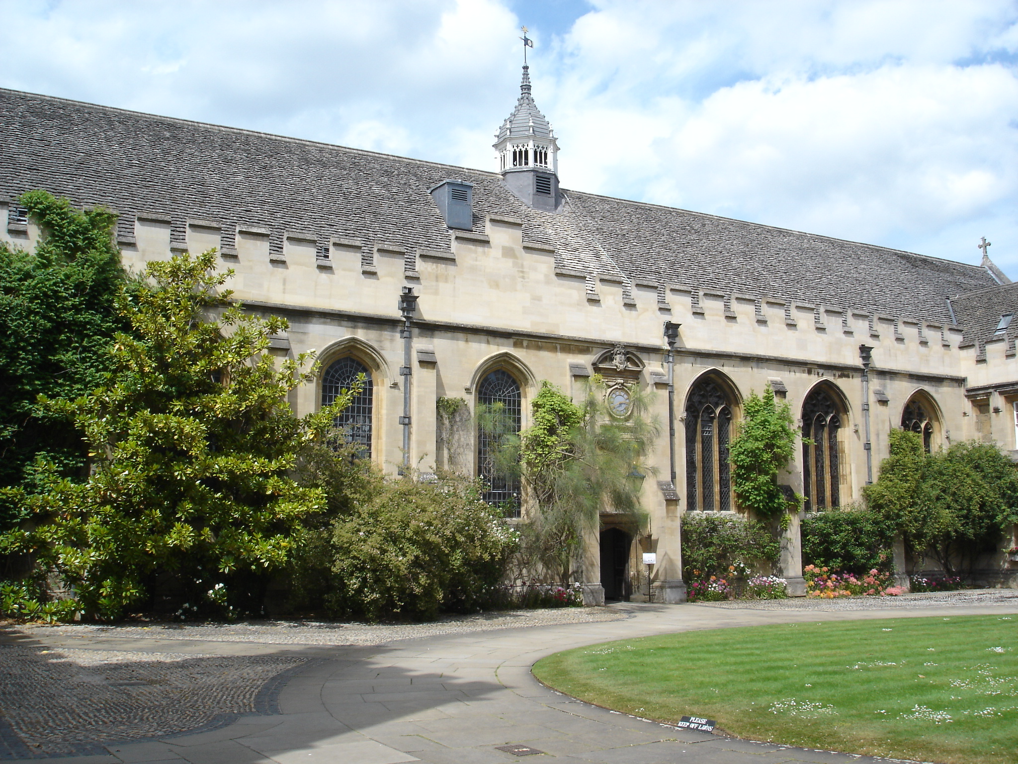 inside St John's College